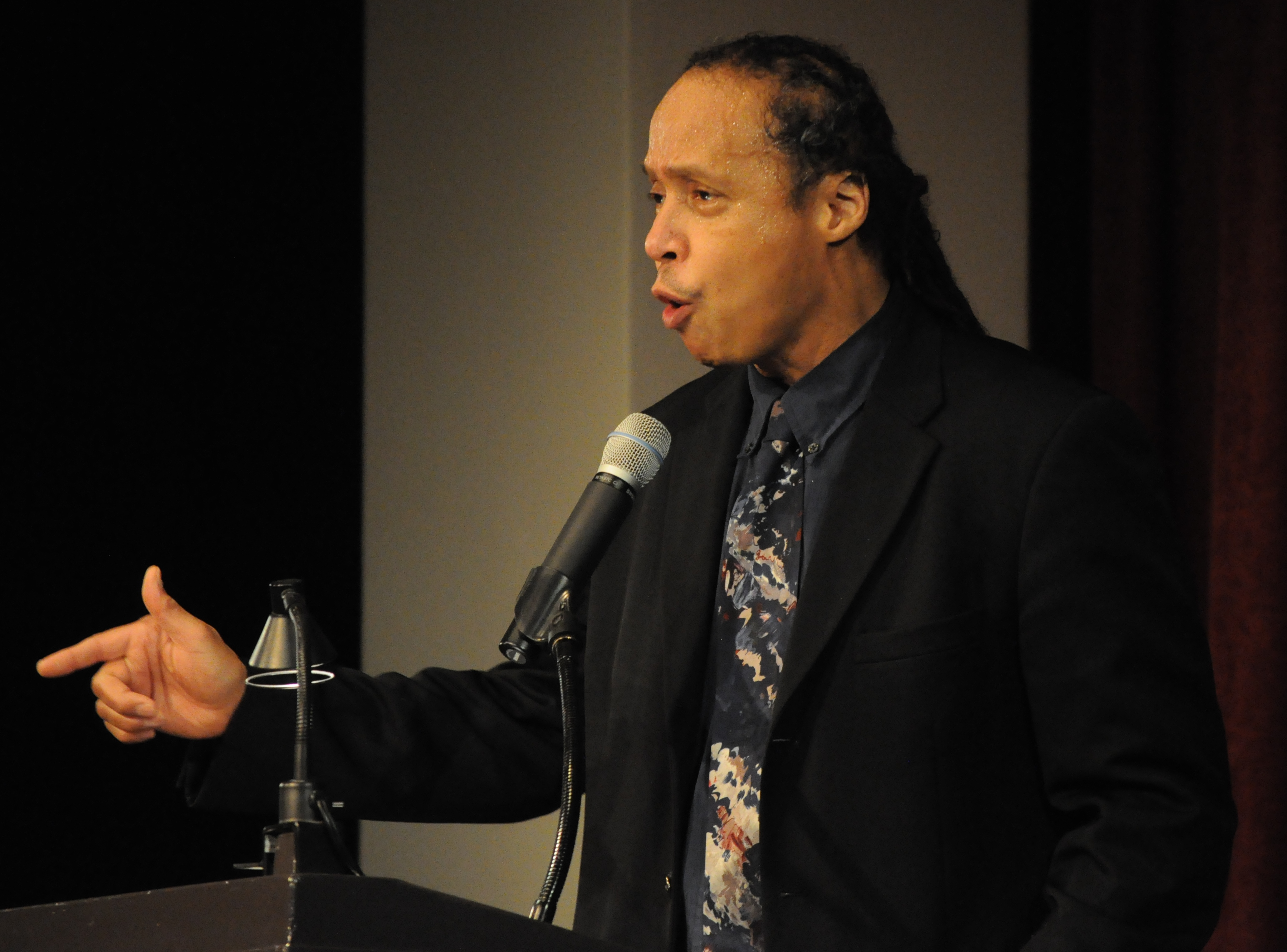 Jamal Joseph speaking at Town Hall, Seattle, Washington.